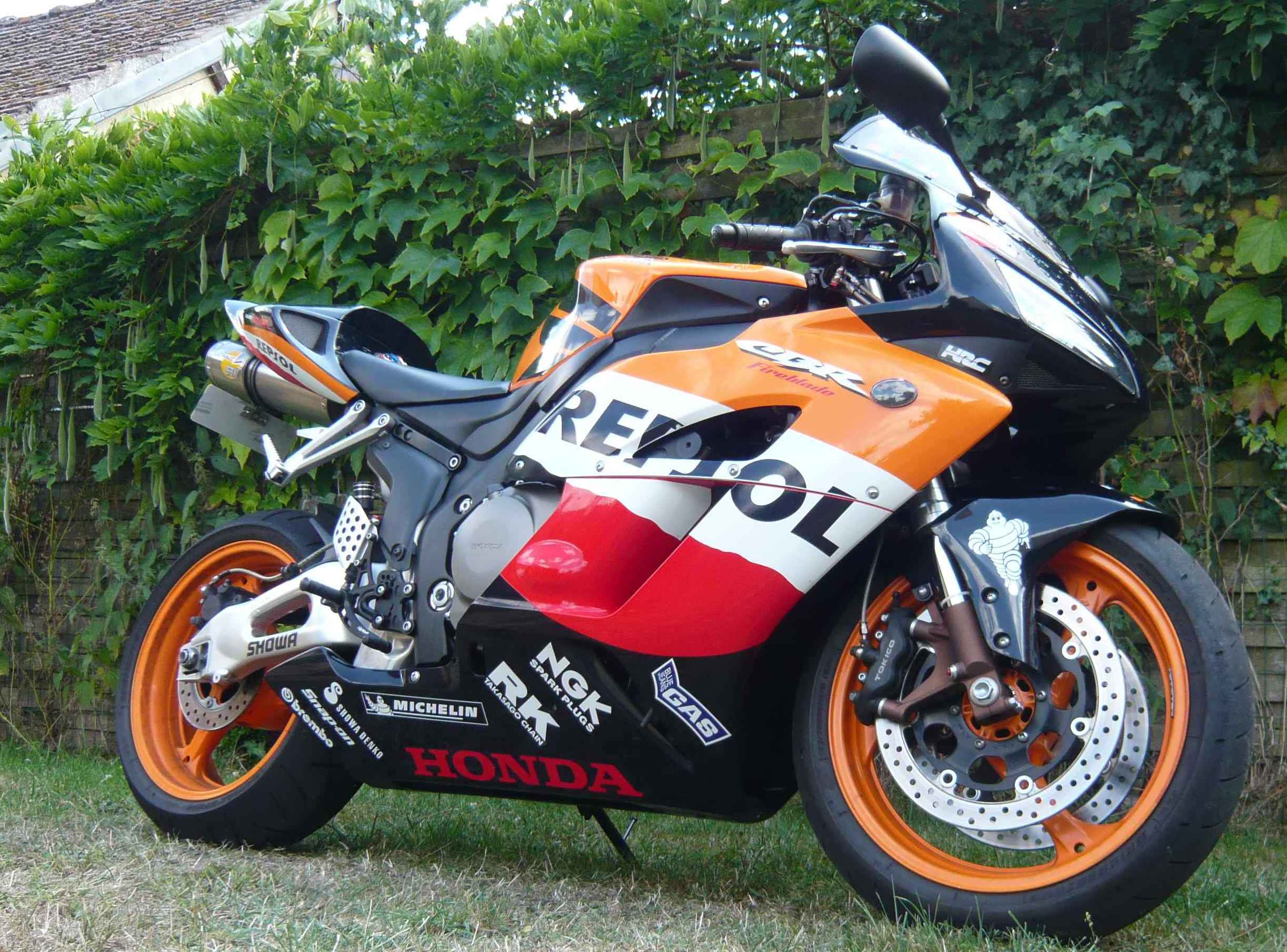 Motorbike Honda CBR 1000 RR Repsol 2005